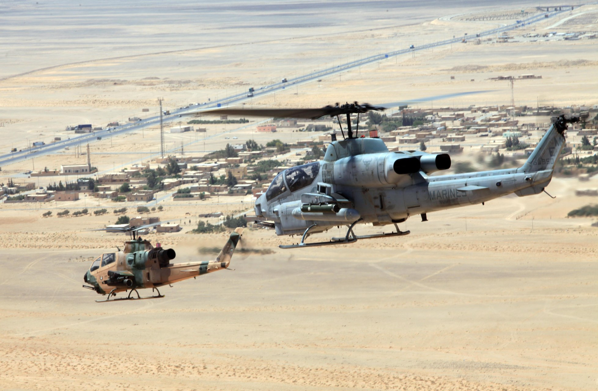 U.S. Marine and Jordanian Air Force Cobras fly together during a training flight over the desert here, May 18, as part of Exercise Eager Lion 12. The Marine Cobra, right, is an AH-1W with the Marine Light Attack Helicopter Squadron 269 attached to Marine Medium Tiltrotor Squadron 261 (Reinforced), 24th Marine Expeditionary Unit, and the Jordanian Cobra is an AH-1F. Eager Lion 12 is taking place throughout the month of May and is designed to strengthen military-to-military relationships of over 19 participating partner nations. This is the second major exercise for the 24th MEU who, along with the Iwo Jima Amphibious Ready Group, is currently deployed to the U.S Central Command area of operations as a theater security and crisis response force.